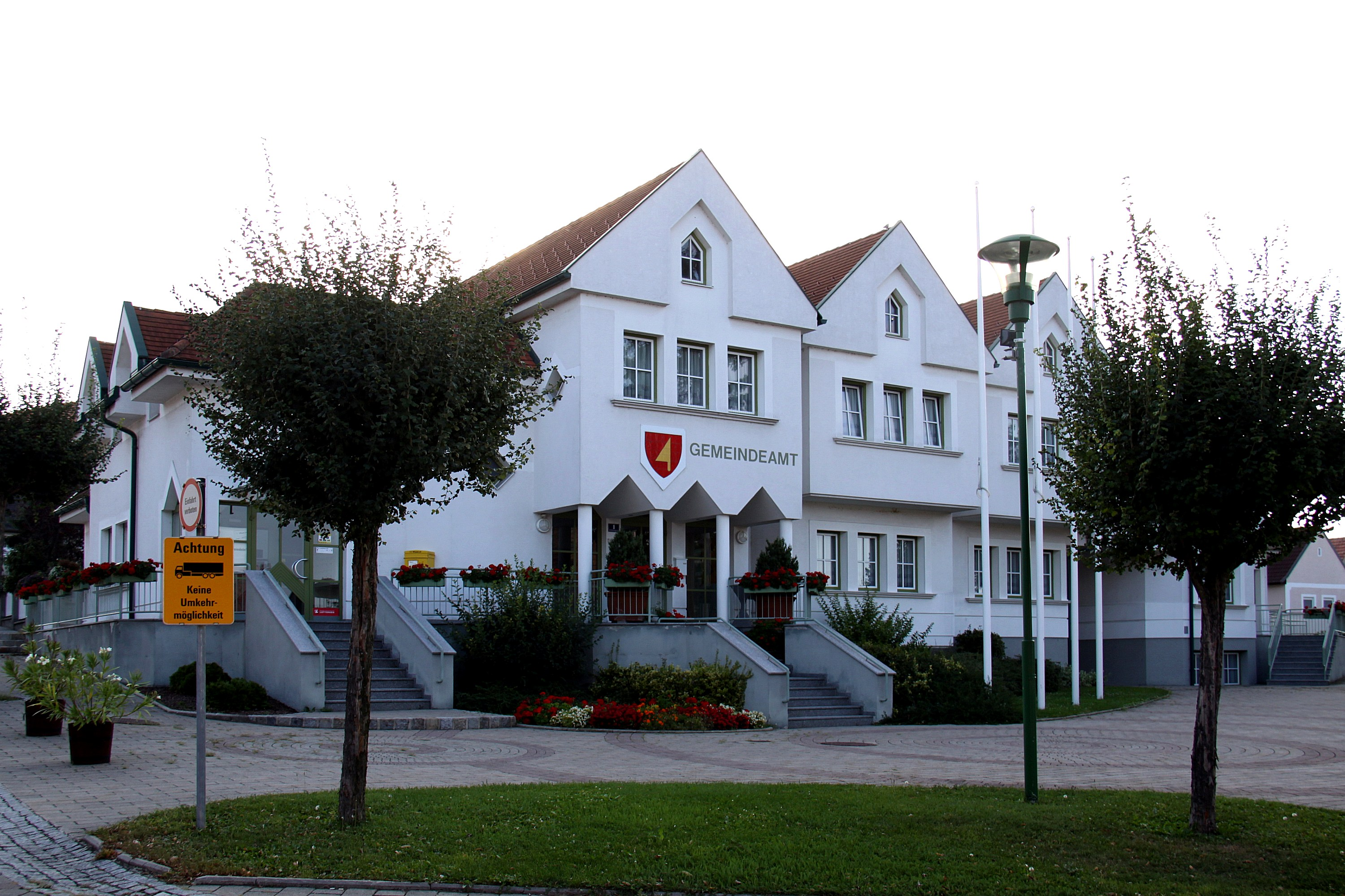 Municipal office - Klingenbach. Object location 47° 45′ 7.11″ N, 16° 32′ 25.25″ E This and other images at their locations on: Google Maps - Google Earth - OpenStreetMap - Proximityrama(Info)